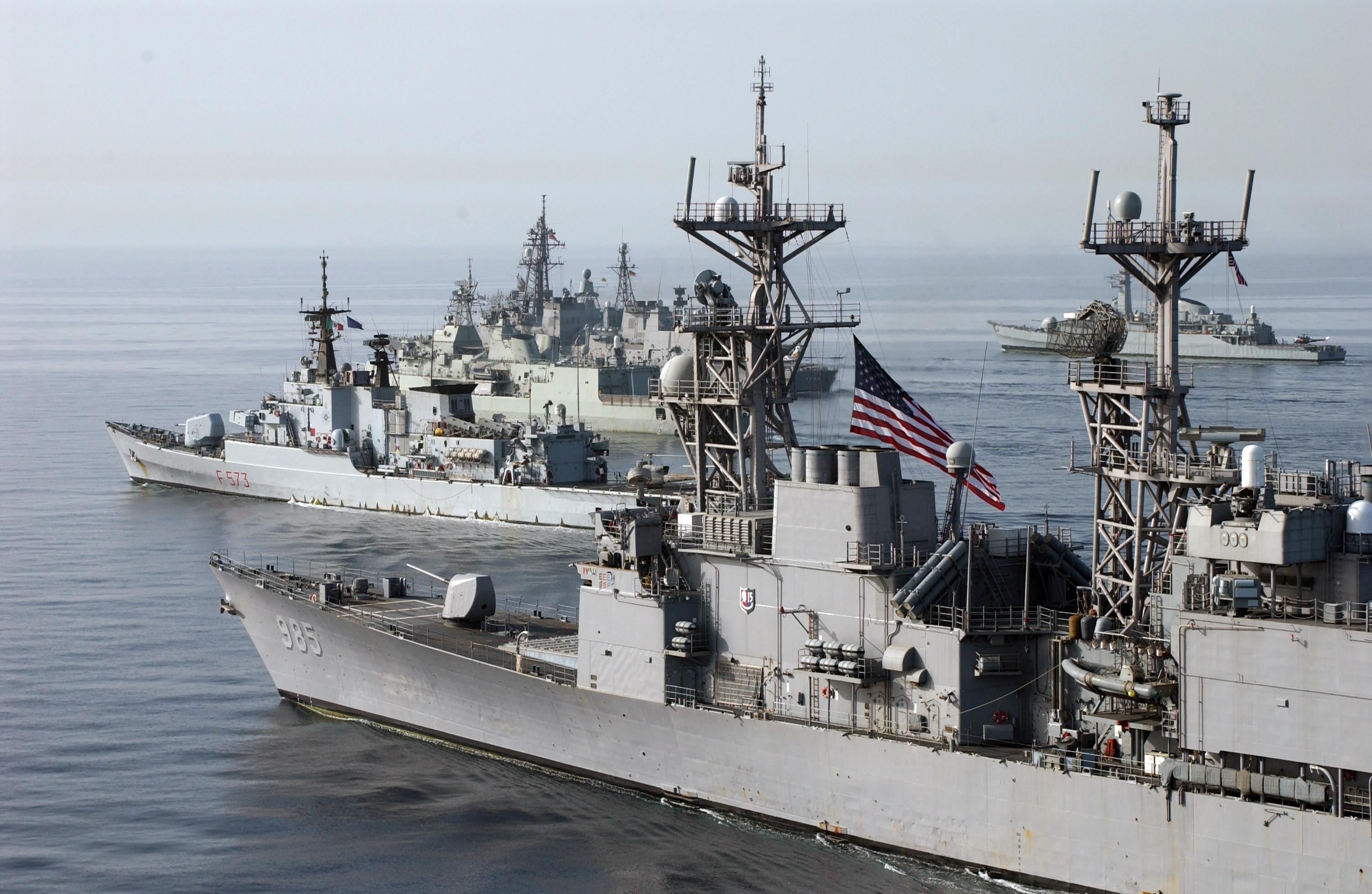 Gulf of Oman (May 6, 2004) - Ships assigned to Combined Task Force One Five Zero (CTF-150) assemble in a formation for a photo exercise. The multinational Combined Task Force One Five Zero (CTF-150) was established to monitor, inspect, board, and stop suspect shipping to pursue the war on terrorism and includes operations currently taking place in the North Arabia Sea to support Operation Iraqi Freedom. Countries contributing to CTF-150 currently include Australia, Canada, France, Germany, Italy, Pakistan, New Zealand, Spain, United Kingdom and the United States. U.S. Navy photo by Photographer's Mate 1st Class Bart Bauer. (RELEASED)